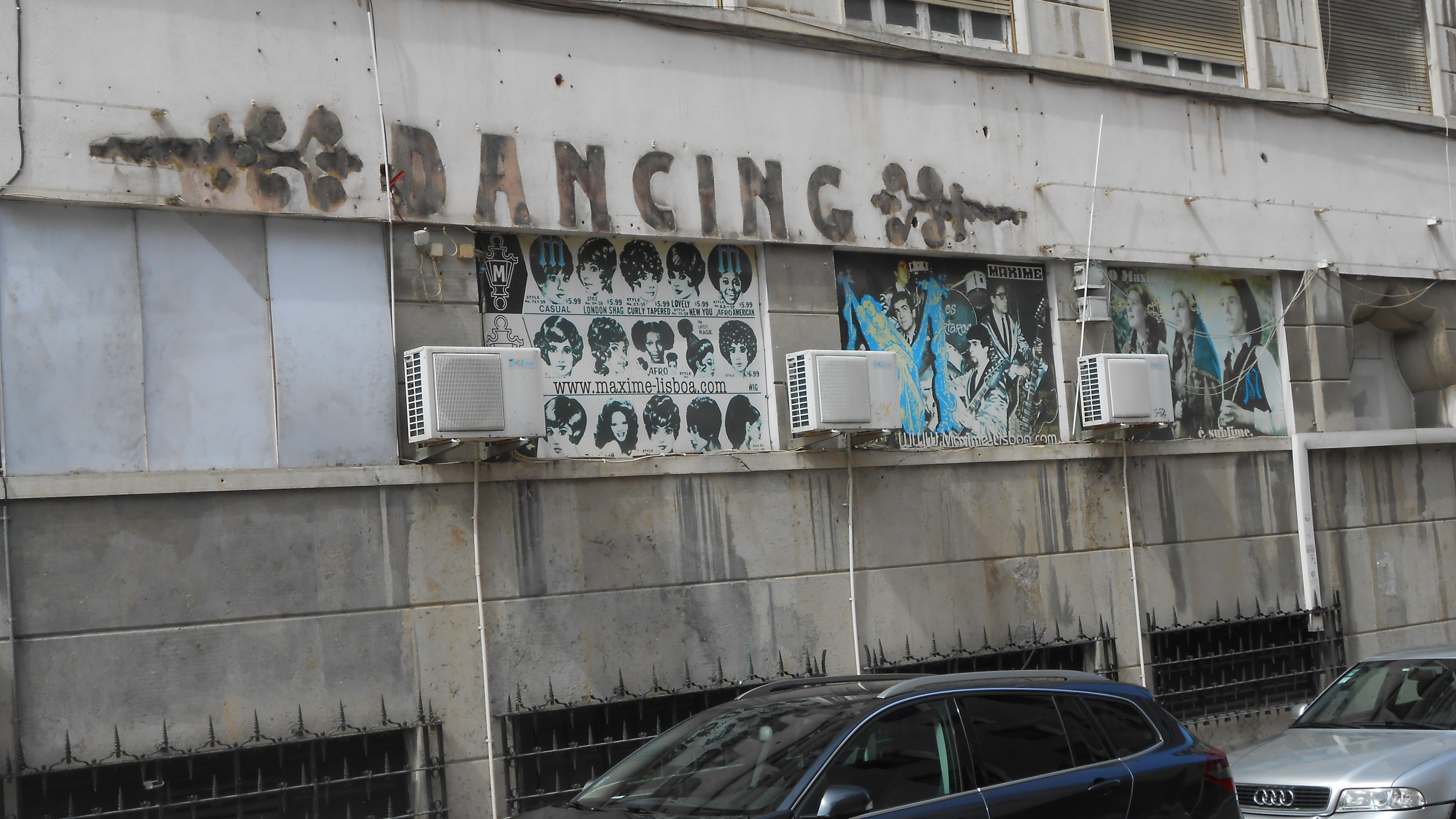 Exterior side view of the famous Cabaret Maxime in Lisbon, remaining closed as seen in march 2014